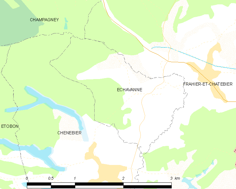 Map of French municipality